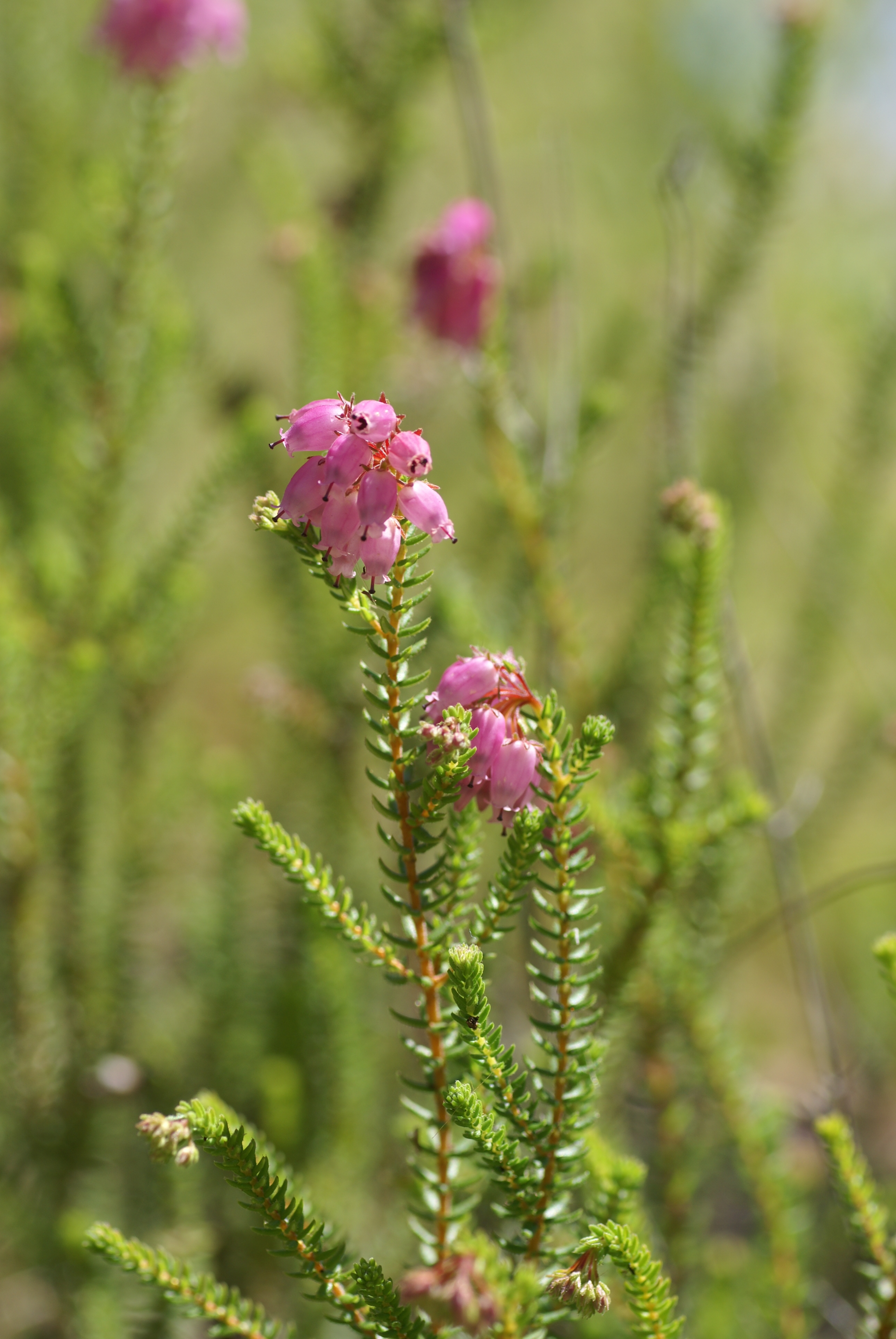 Plant species Erica andevalensis in Jardín Botánico La Concepción in Malaga, Spain